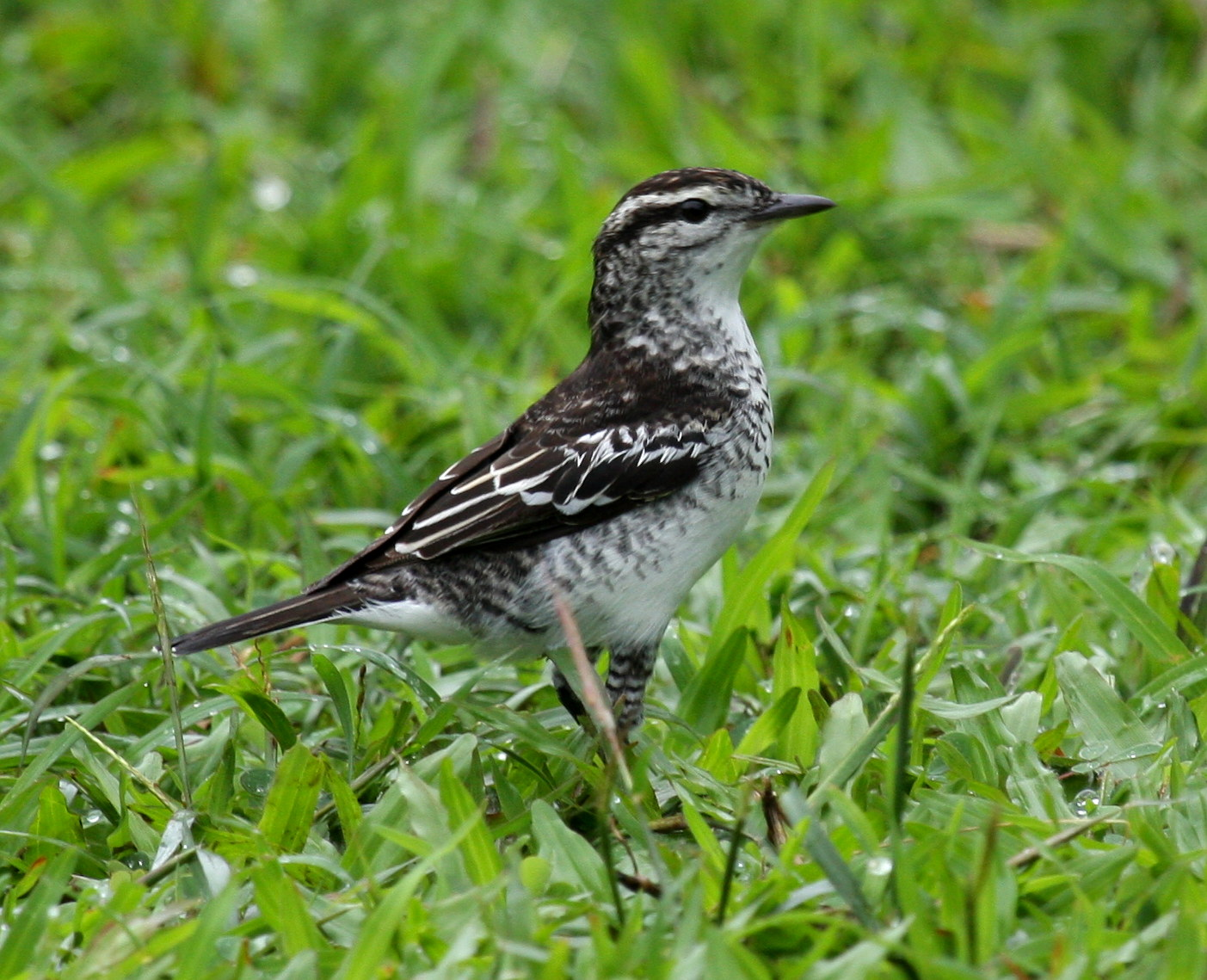 Polynesian Triller (Lalage maculosa) ssp woodi Matei, Taveuni, Fiji Isles